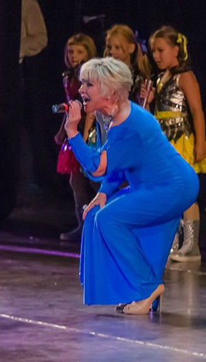 Performance by Irina Gribulina